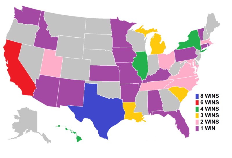 asafa